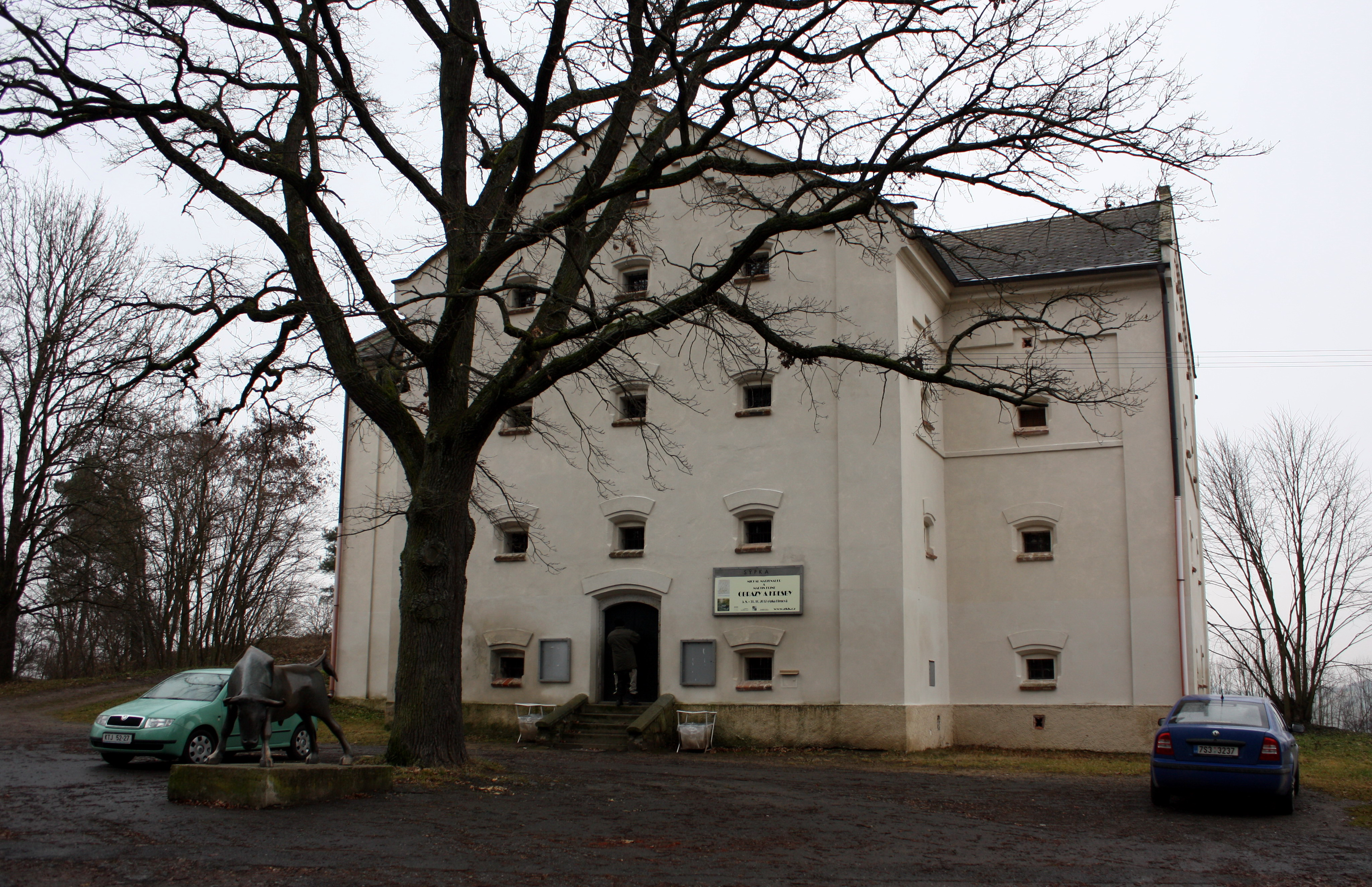 Former granary (now gallery) in Klenová, Plzeň region, Czechia.